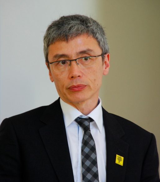 Stephen Hwang